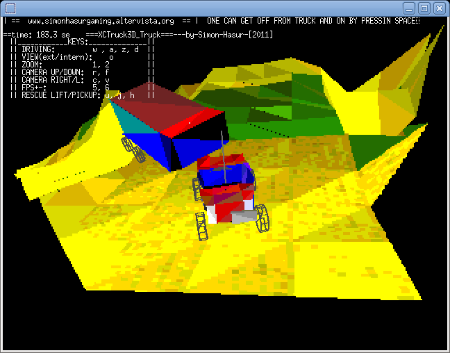 Una schermata normale. Si nota lo stile molto fedele a quello del (Acorn) conqueror.